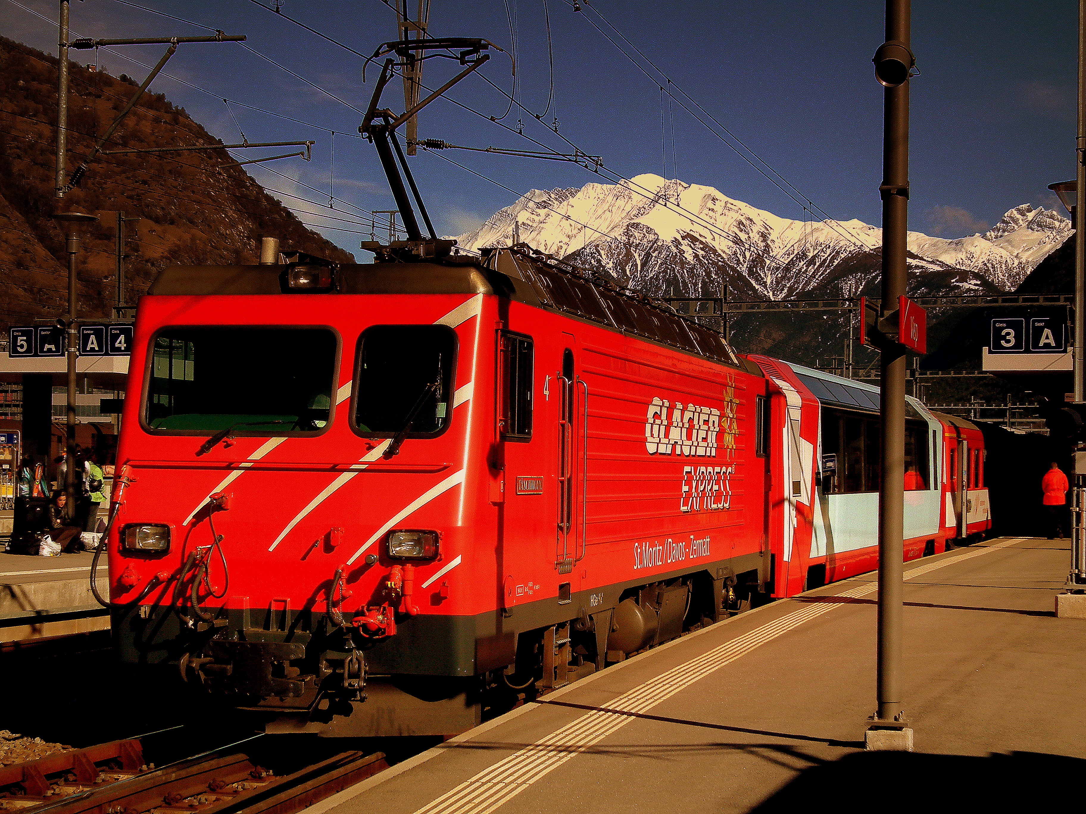 Regional train to Zermatt with locomotive in GLACIER EXPRESS livery at Visp (Switzerland) railway station, March 2011